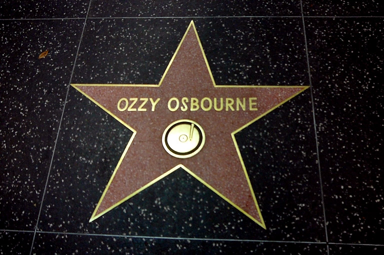 Ozzy Osbourne Star at Hollywood